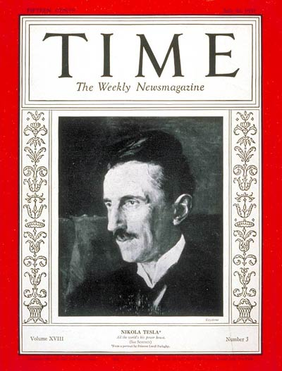 Time magazine, Volume 18 Issue 3, July 20, 1931 The cover shows Nikola Tesla.